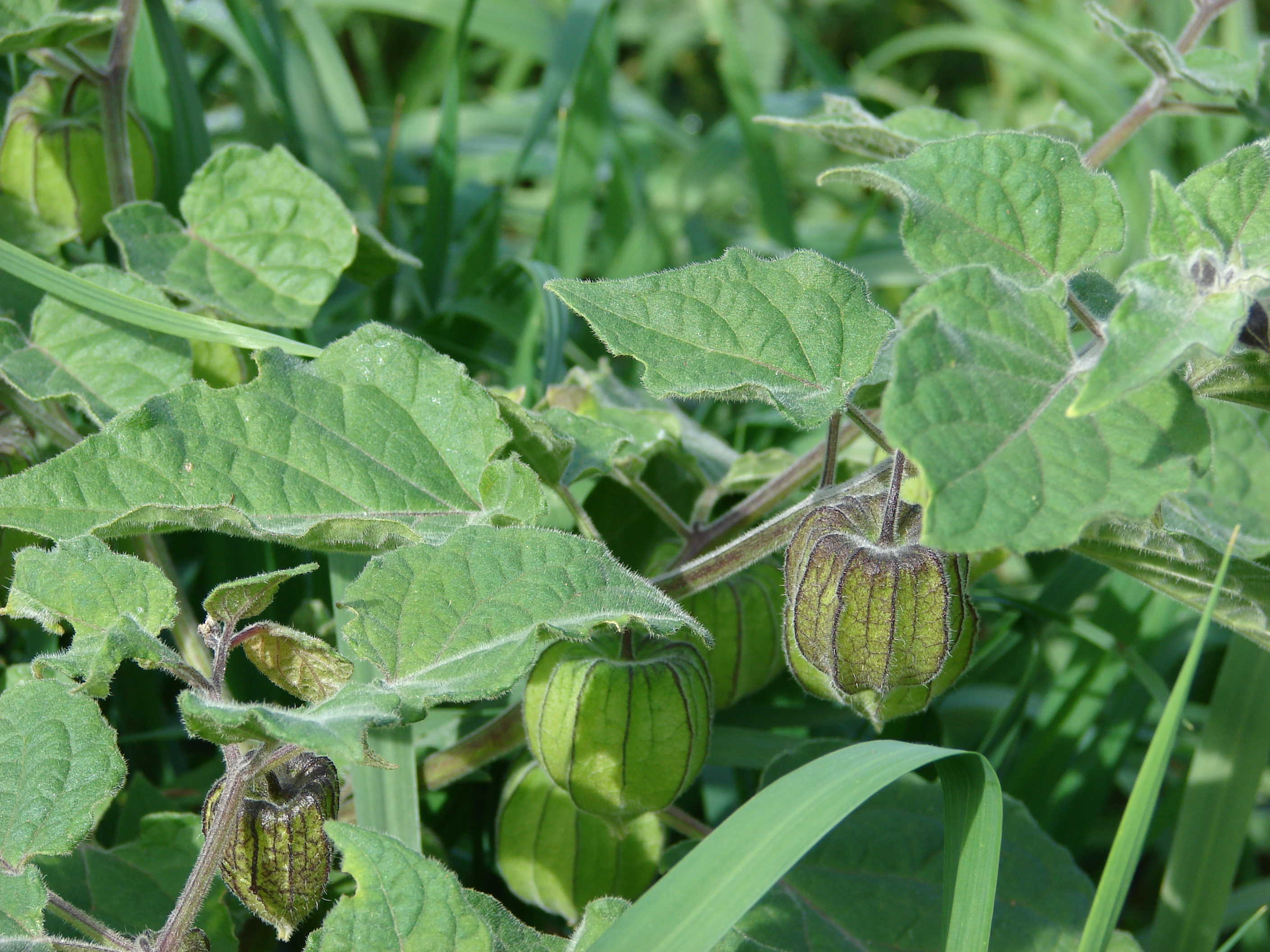 Physalis peruviana (leaves and fruit). Location: Maui, Olinda